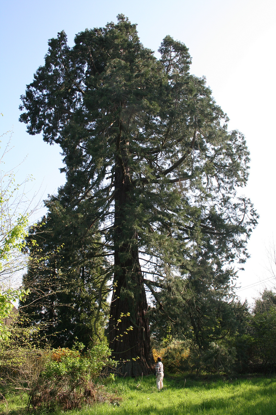 Giant Sequioa